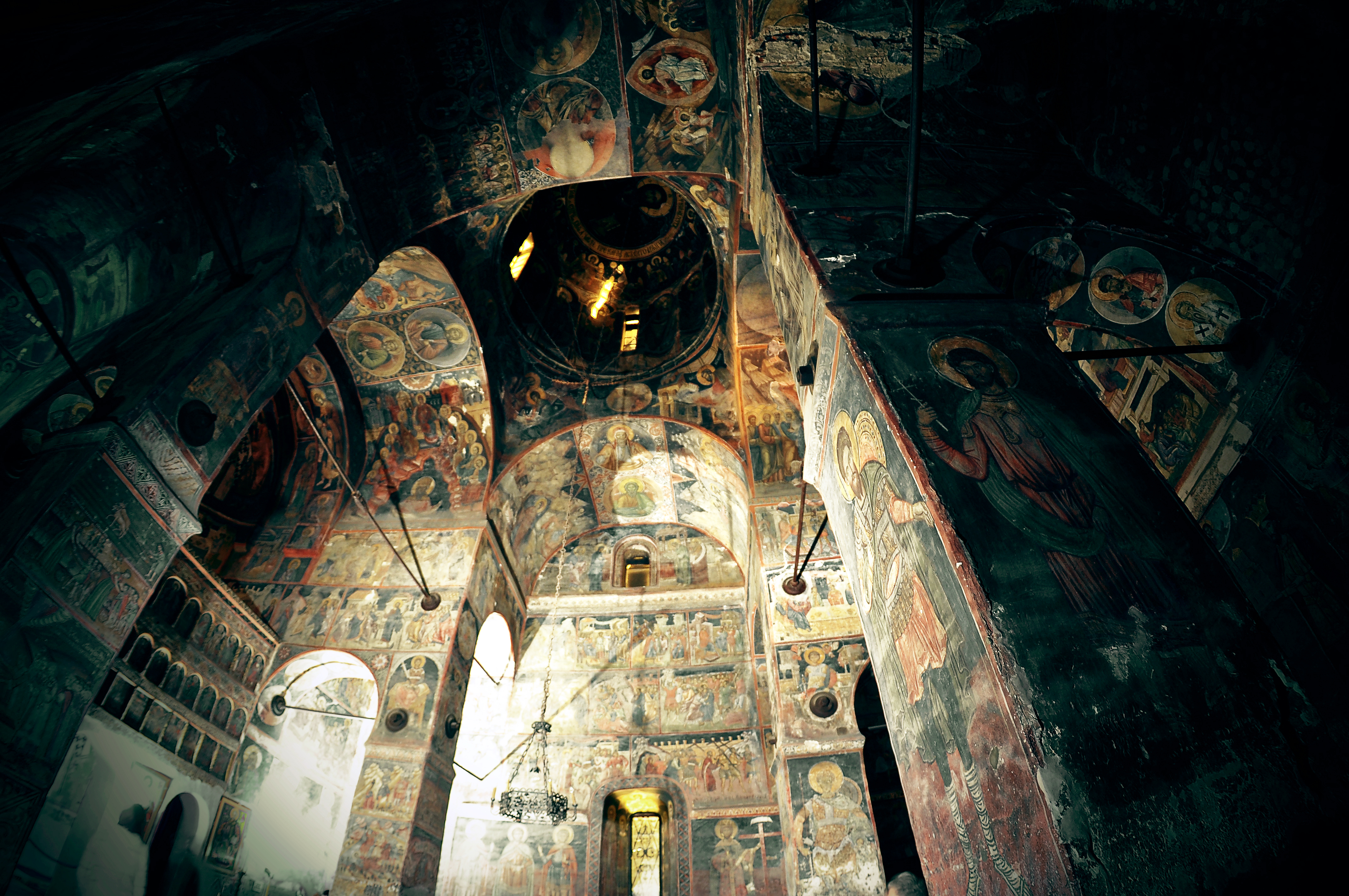 St. Nicholas Church at Curtea de Arges, Romania Biserica Sf. Nicolae Domnesc (Curtea Domnească ) Curtea de Arges 1340-1376 [built probably by master builders from Constantinople, for the Princely Court of Basarab I of Wallachia] UNESCO World Heritage list submission: other images of this church